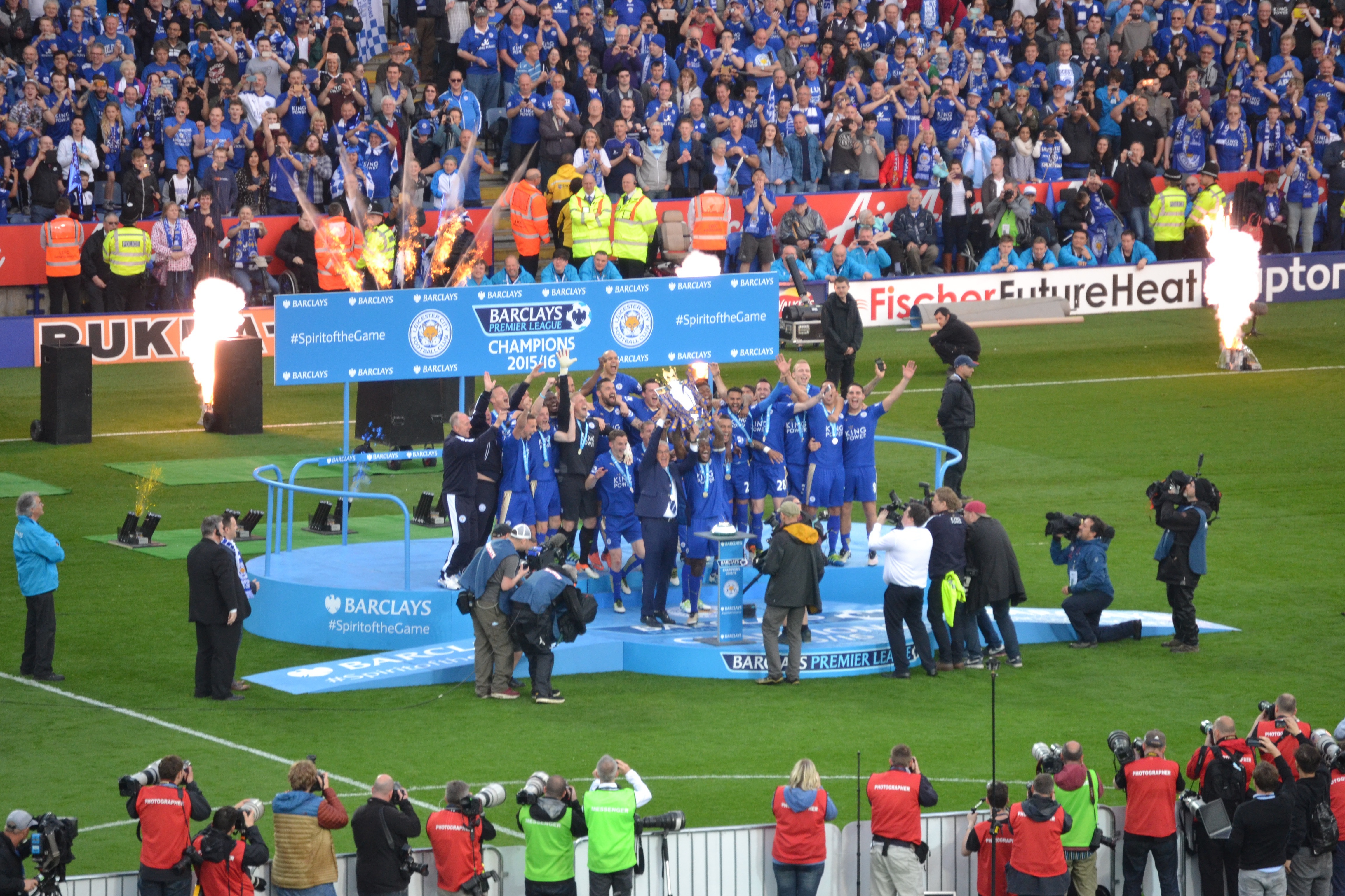 LCFC lift the Premier League Trophy